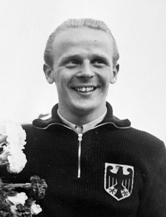 1952 Press Photo PJ Capilla, S Lee & G Haase win Olympic diving event